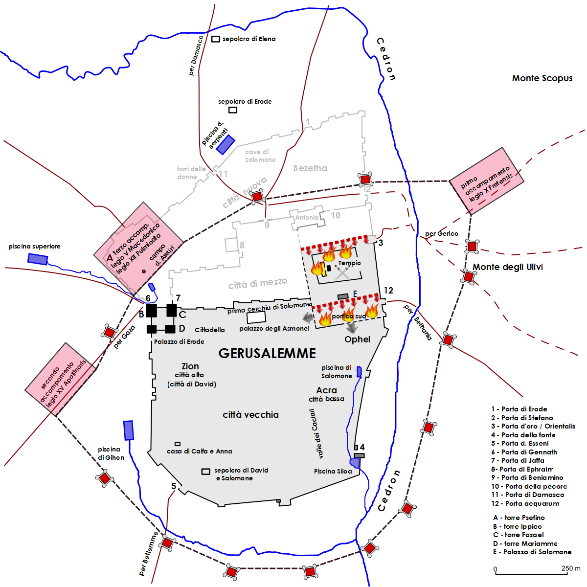 Jerusalem at the time on siege of 70 - 9th step